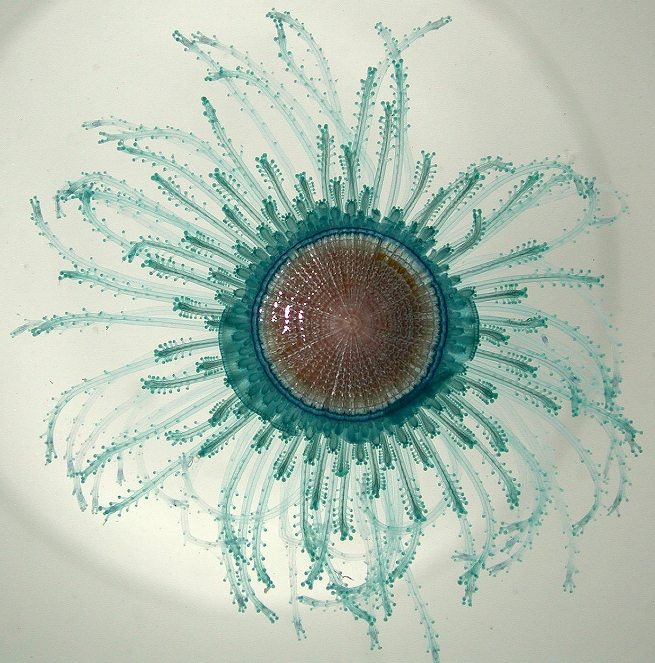 Blue button (Porpita porpita) (Hydrozoa: Anthoathecata). Captured in course of "Islands in the Stream 2002: Exploring Underwater Oases".